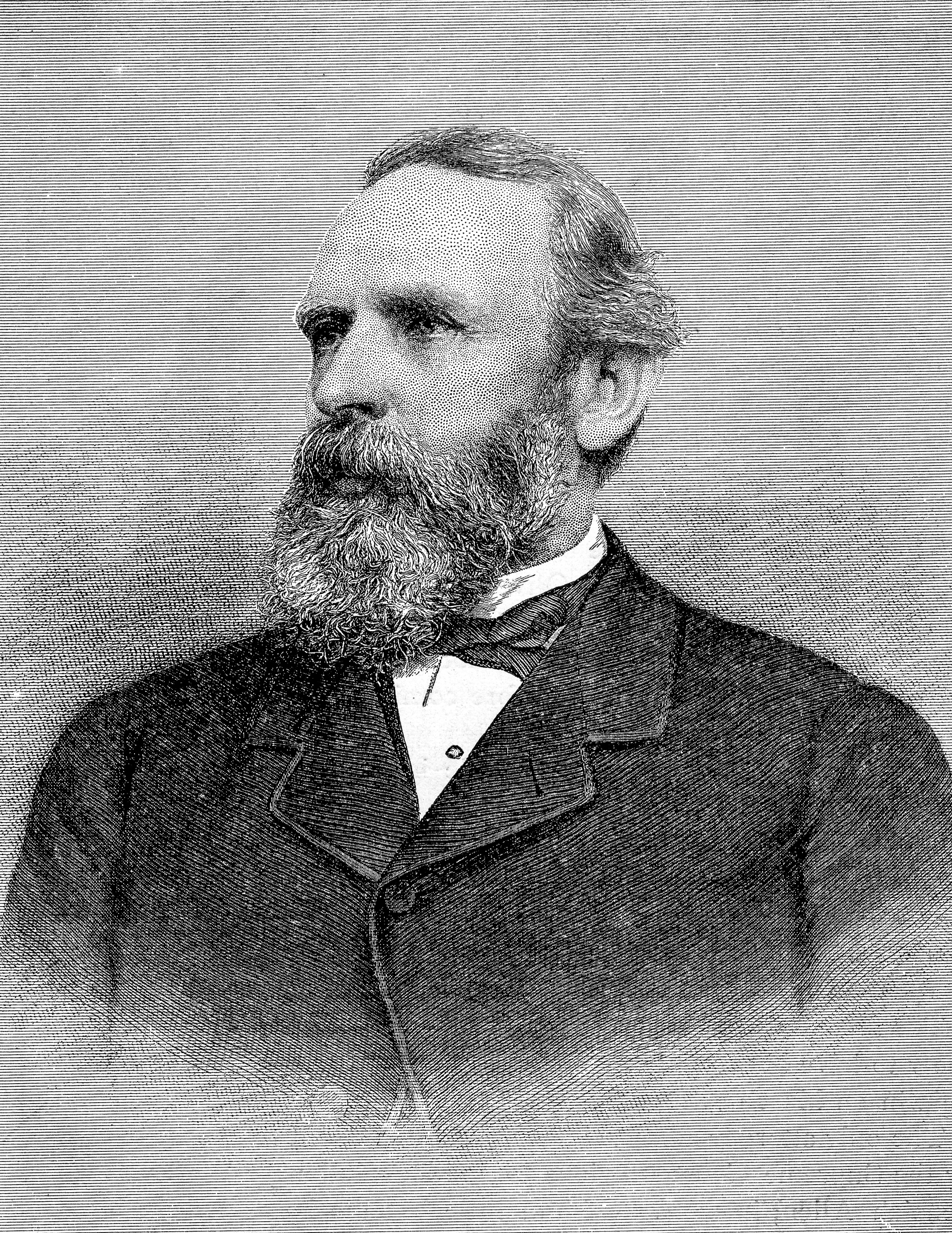 RI Judge Thomas Durfee. Engraving from The Providence Plantations for 250 Years, Welcome Arnold Greene, 1886. page 227.